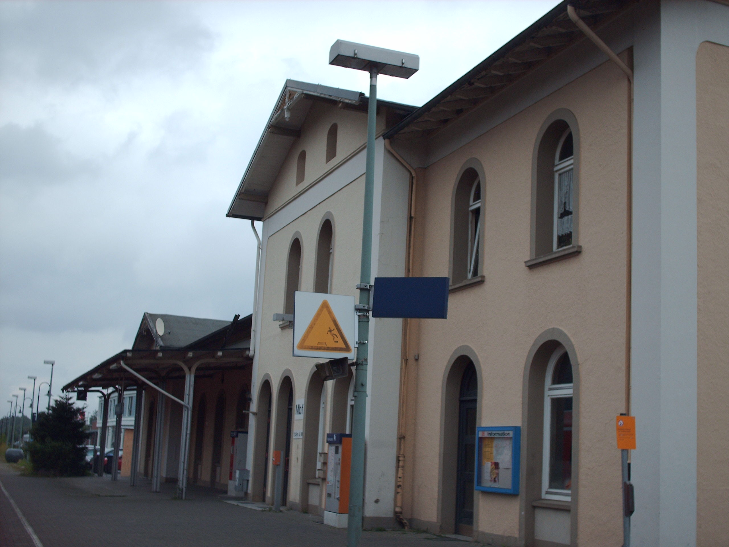 Marsberg station, Marsberg, Germany check usage